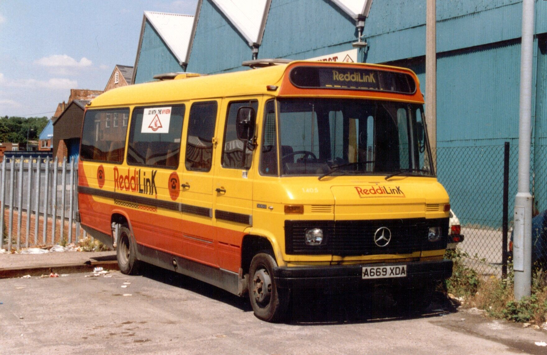 Ex Midland Red Coaches L508D